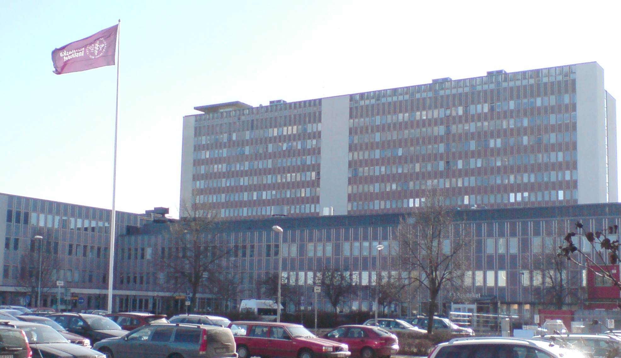 The hospital in Danderyd, Sweden